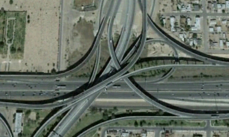 IH-10-US-54 Interchange